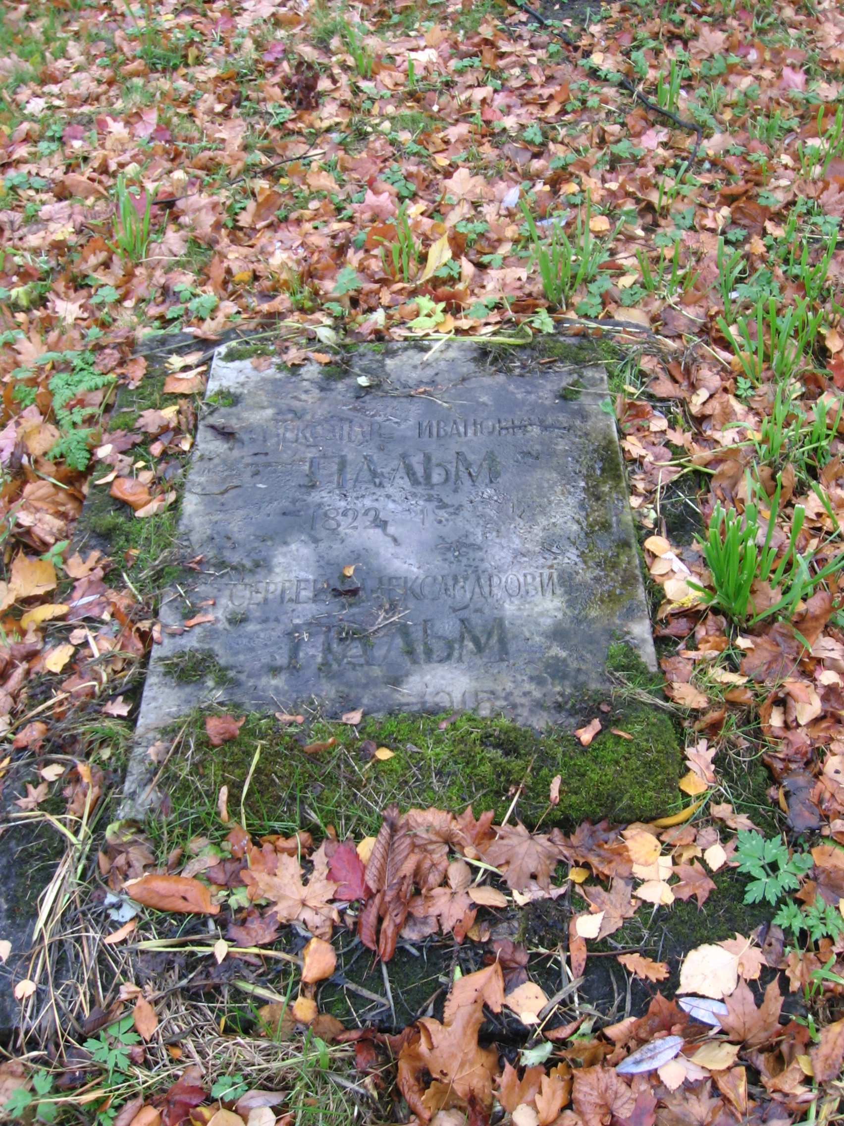 Grave of Alexander Palm and Sergey Palm